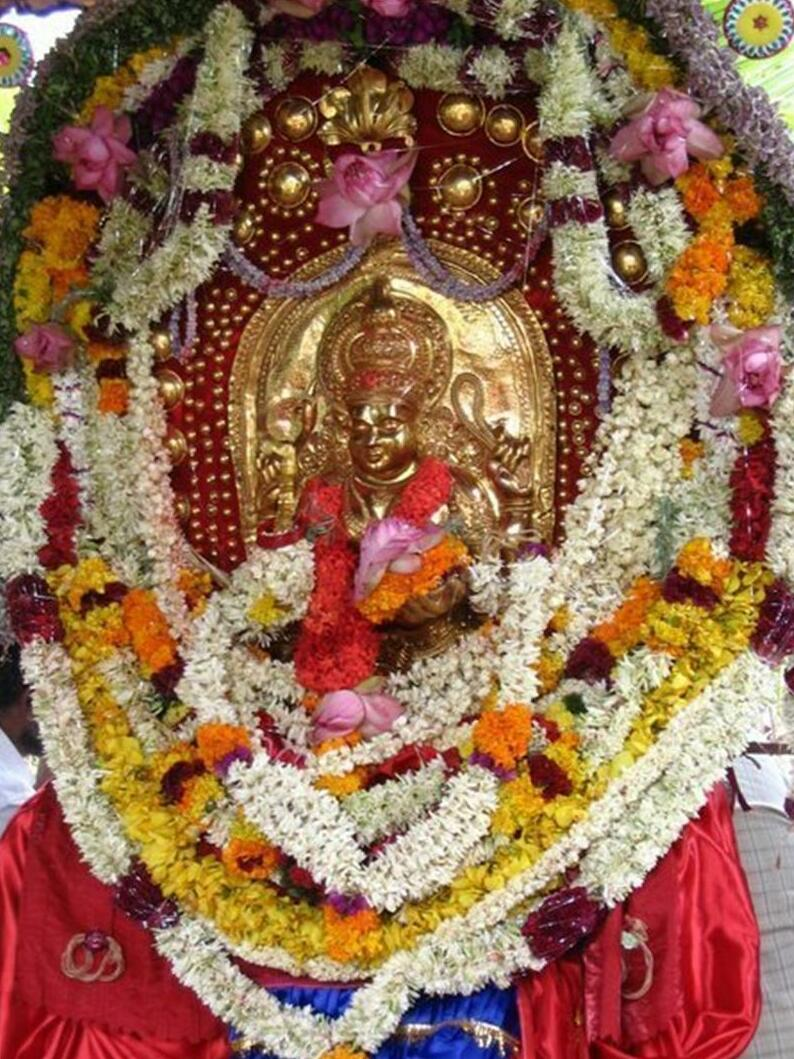 Mancompilamma